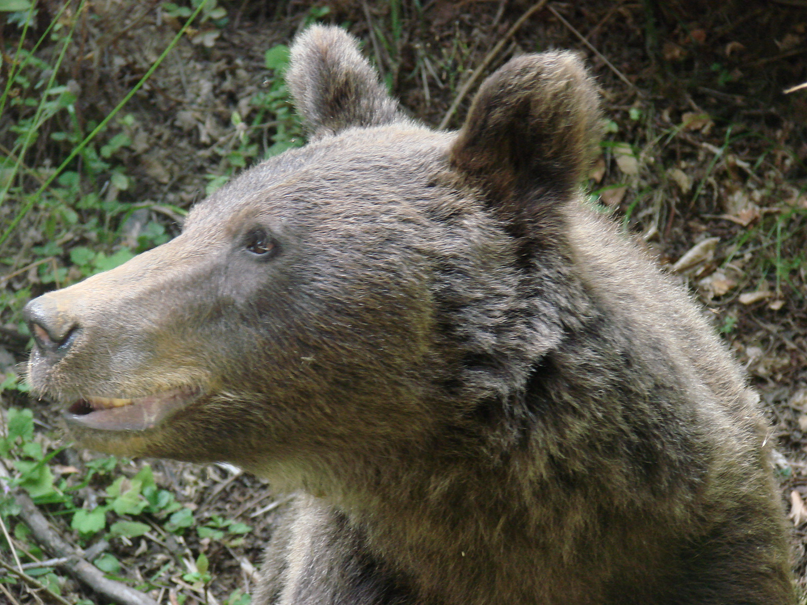 Brown bear (Ursus arctos) profile, near the Transfăgărăşan route, in Făgăraş Mountains.